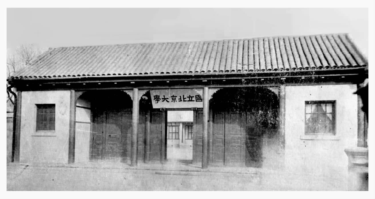 Gate of Peking University, 1917, Jingshan East Street